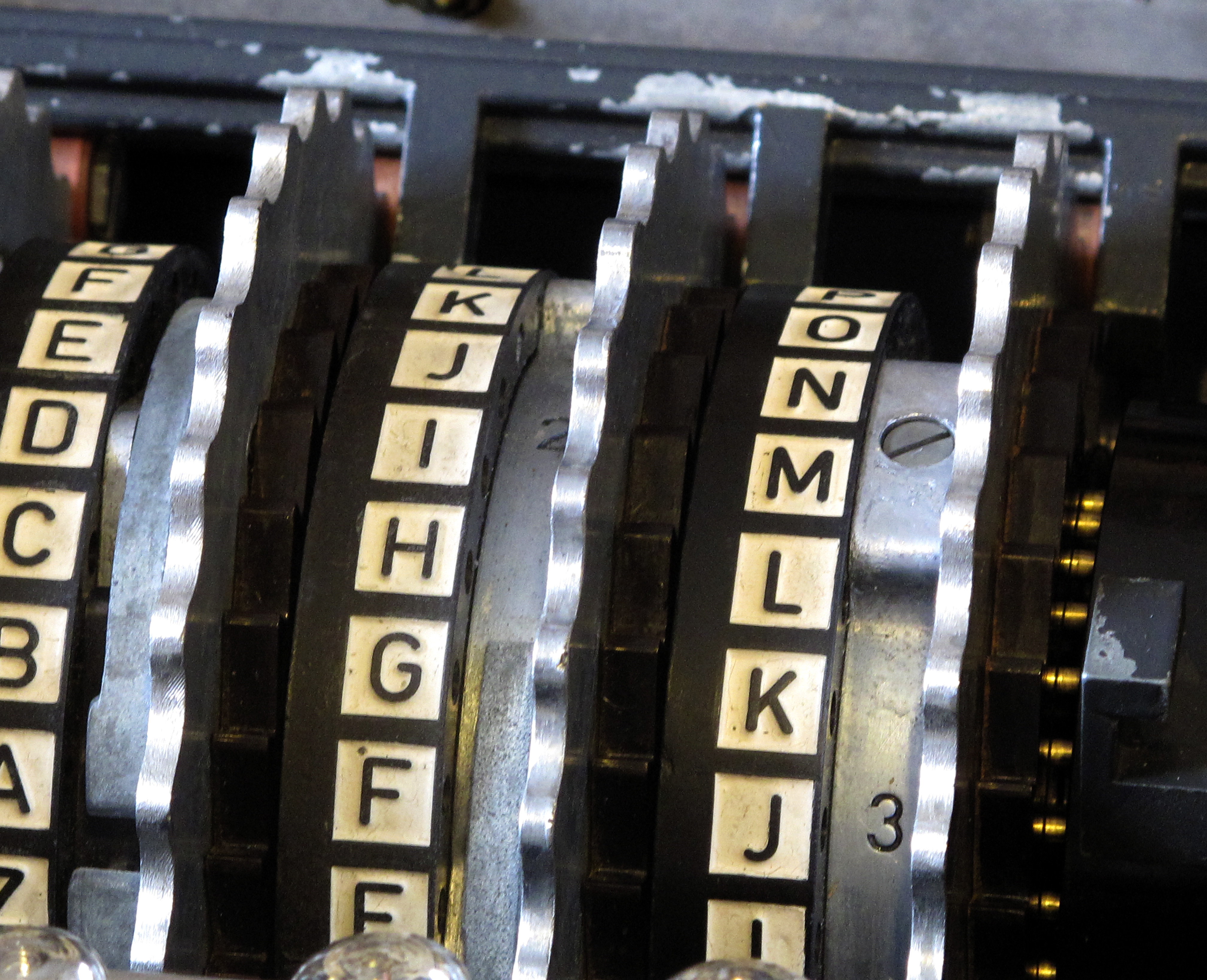 Enigma wheels within alphabet rings in position in an Enigma scrambler